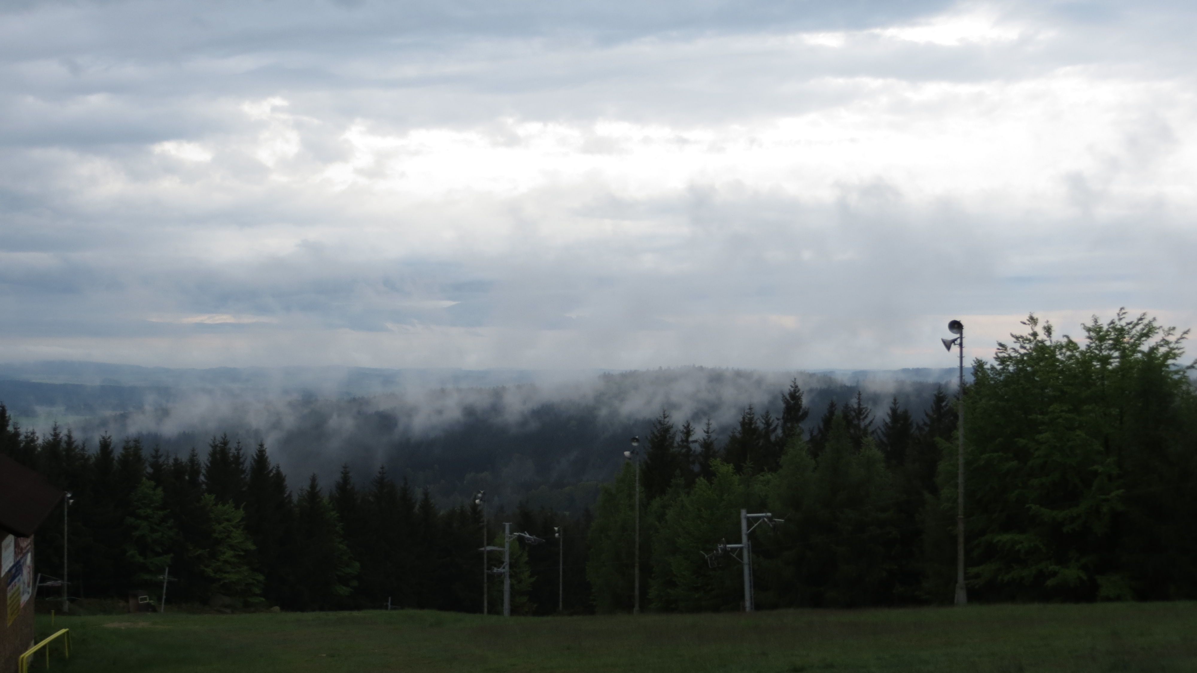 Top view of ski slope Čeřínek in Cejle, Pelhřimov District.